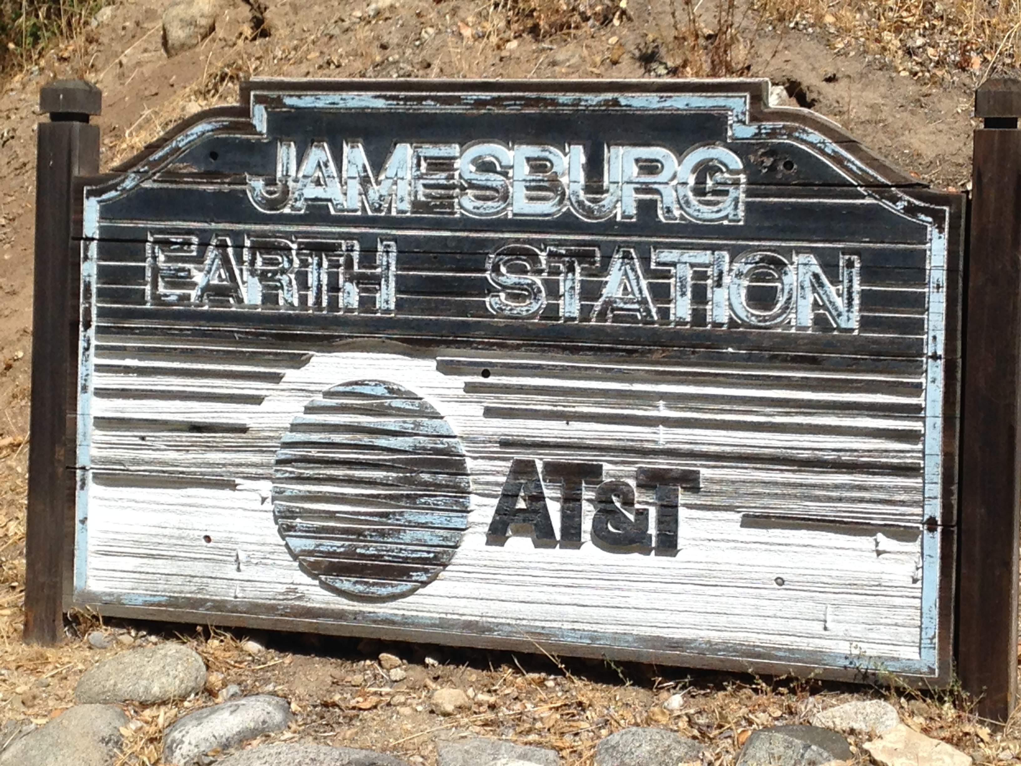 Photo made from outside the gate of the Jamesburg antenna.